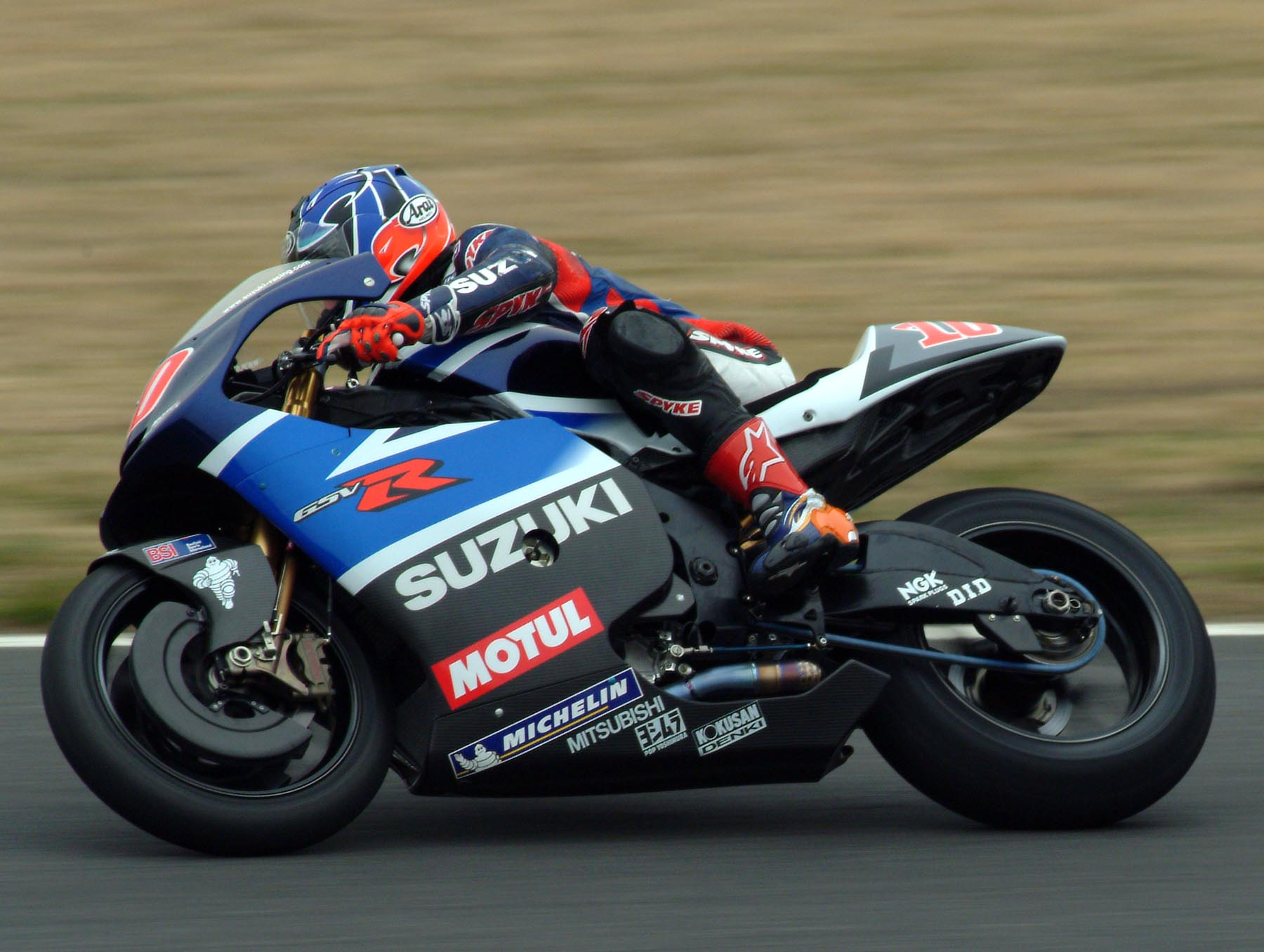 Kenny Roberts Jr., in Japanese Grand Prix 2003 ケニー・ロバーツ（ジュニア） 2003年日本GPにて撮影